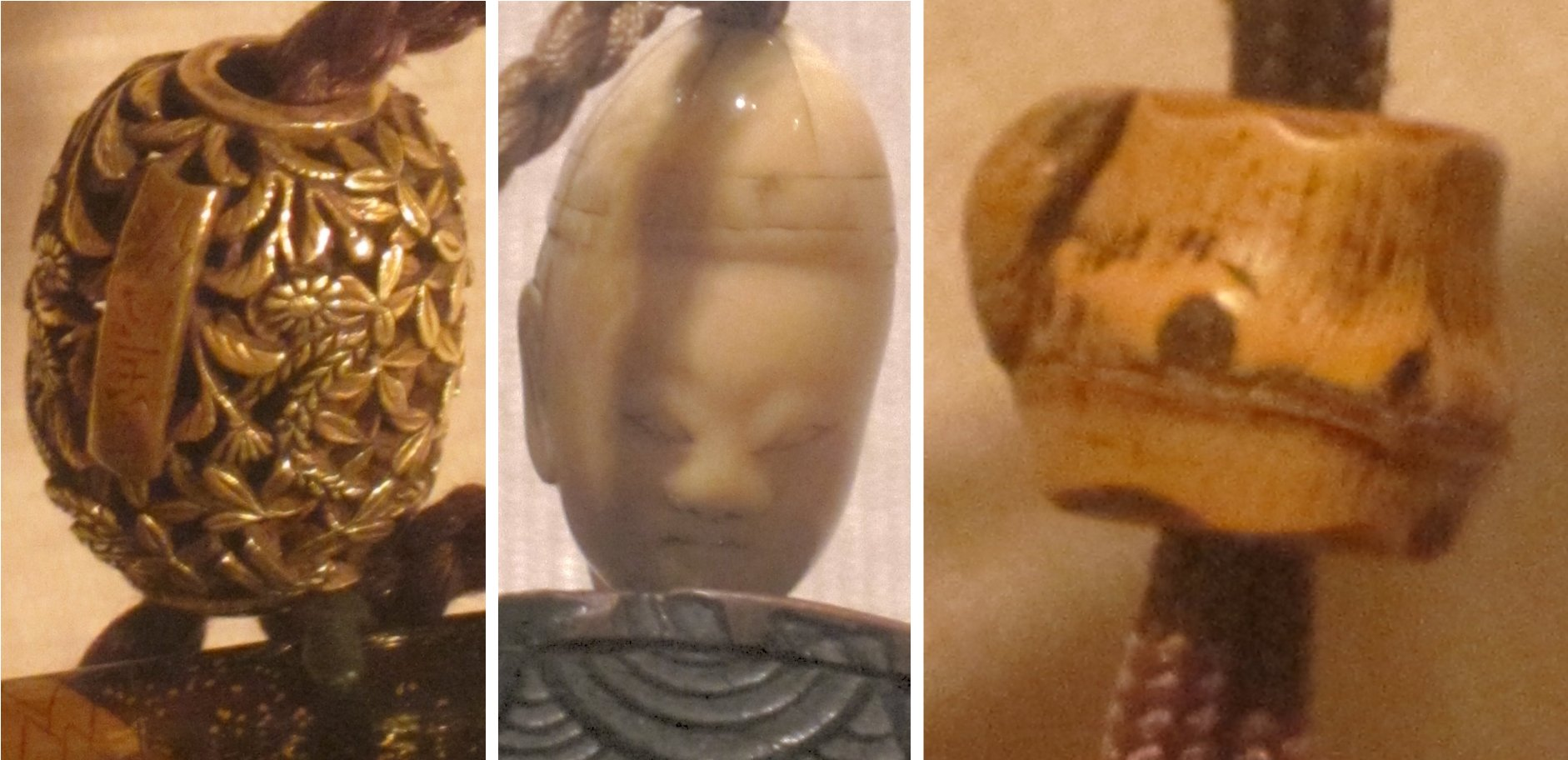 Ojime from the Honolulu Academy of Arts